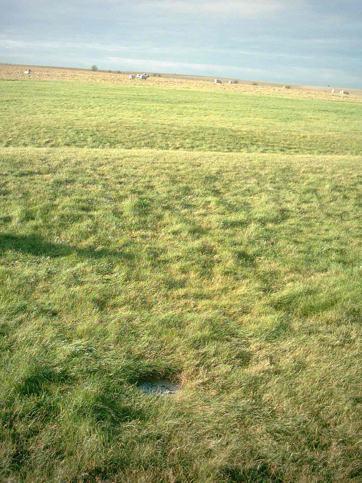 A white disc marks the location of Aubrey hole number 21 on the western side of the southern entrance to Stonehenge. The monument's encircling bank is visible behind it. Taken by User:Adamsan 02/01/06